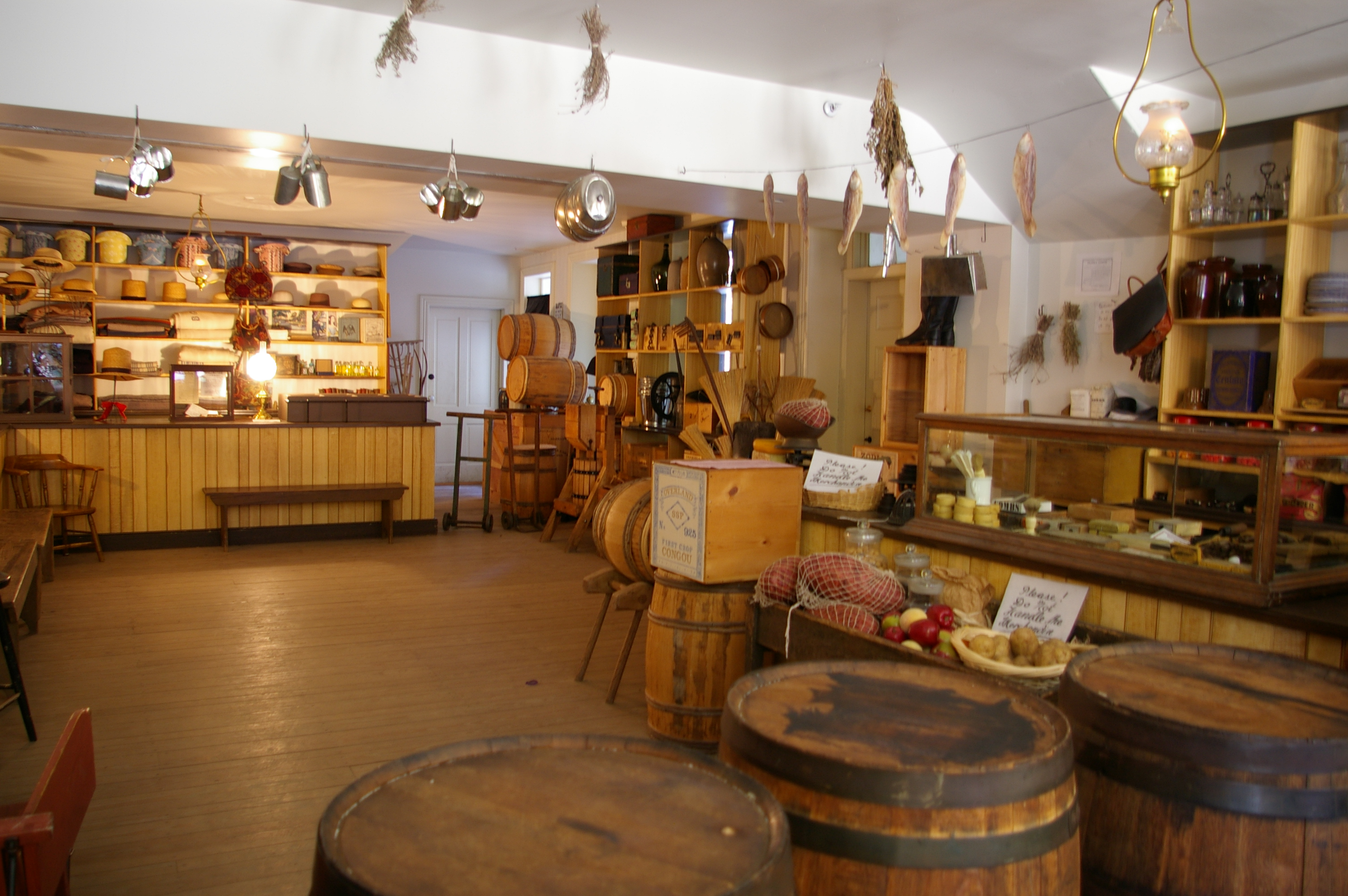 Preserved Dry Goods Store on Shenandoah Street in the Lower Town of Harpers Ferry National Historical Park. Photograph by Joy Schoenberger